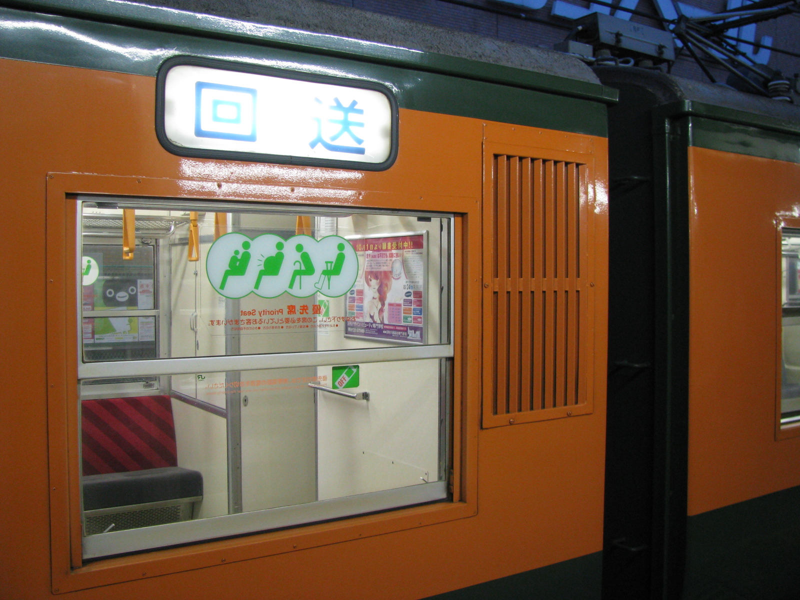 Louver of snow separating room of JR East 115 series electric multiple unit Kumoha 115-1035.